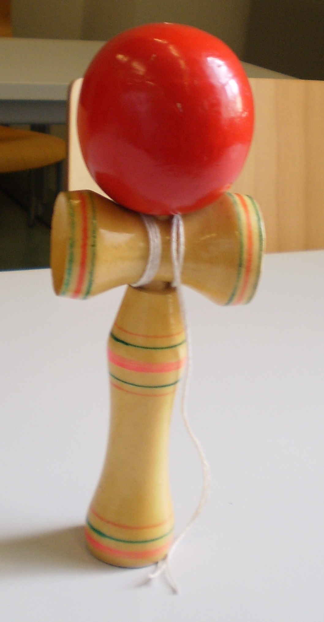 Kendama with ball on top